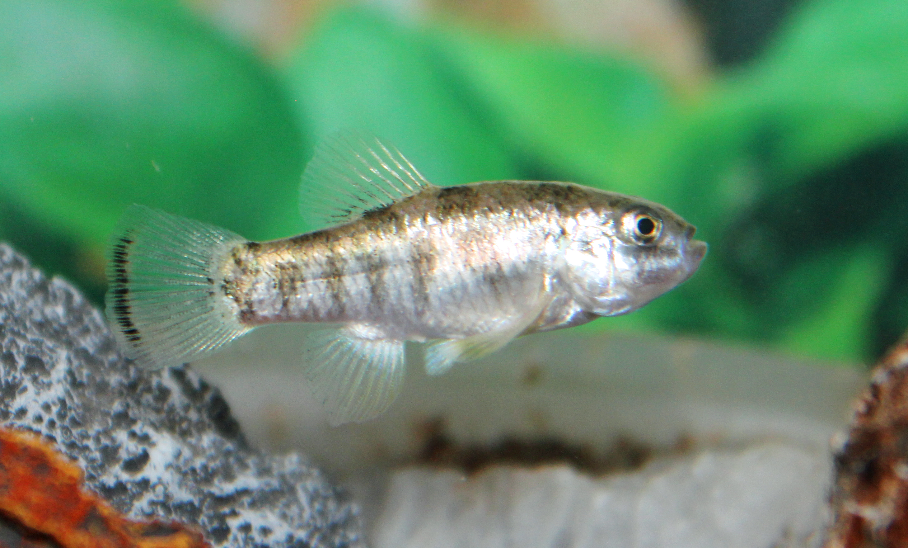 Julimes pupfish (Cyprinodon julimes), male specimen in aquarium.